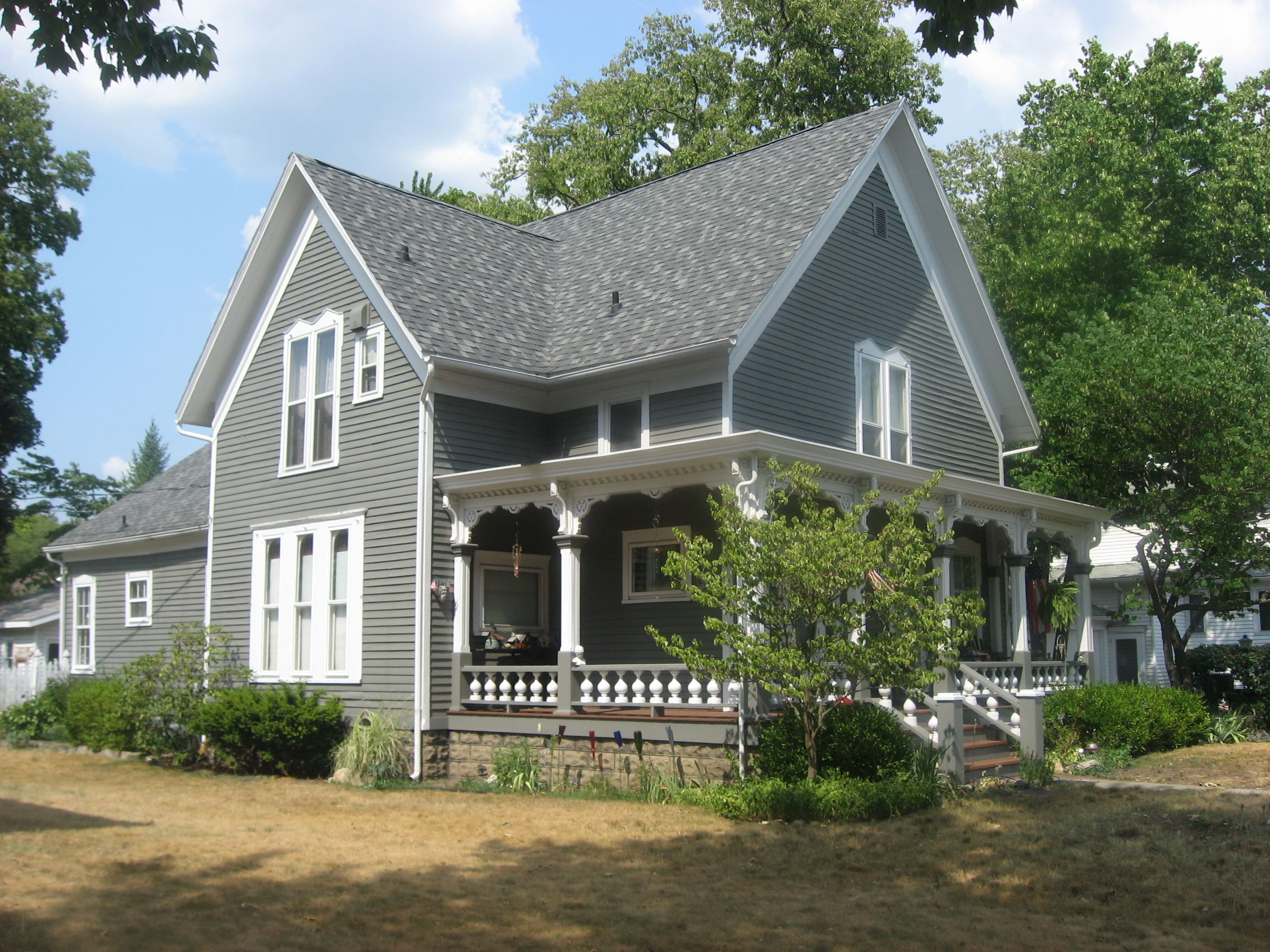 Front and western side of the Emmanuel C. Bickel House, located at 614 W. Bower Street in Elkhart, Indiana, United States. Built in 1870, it is listed on the National Register of Historic Places.